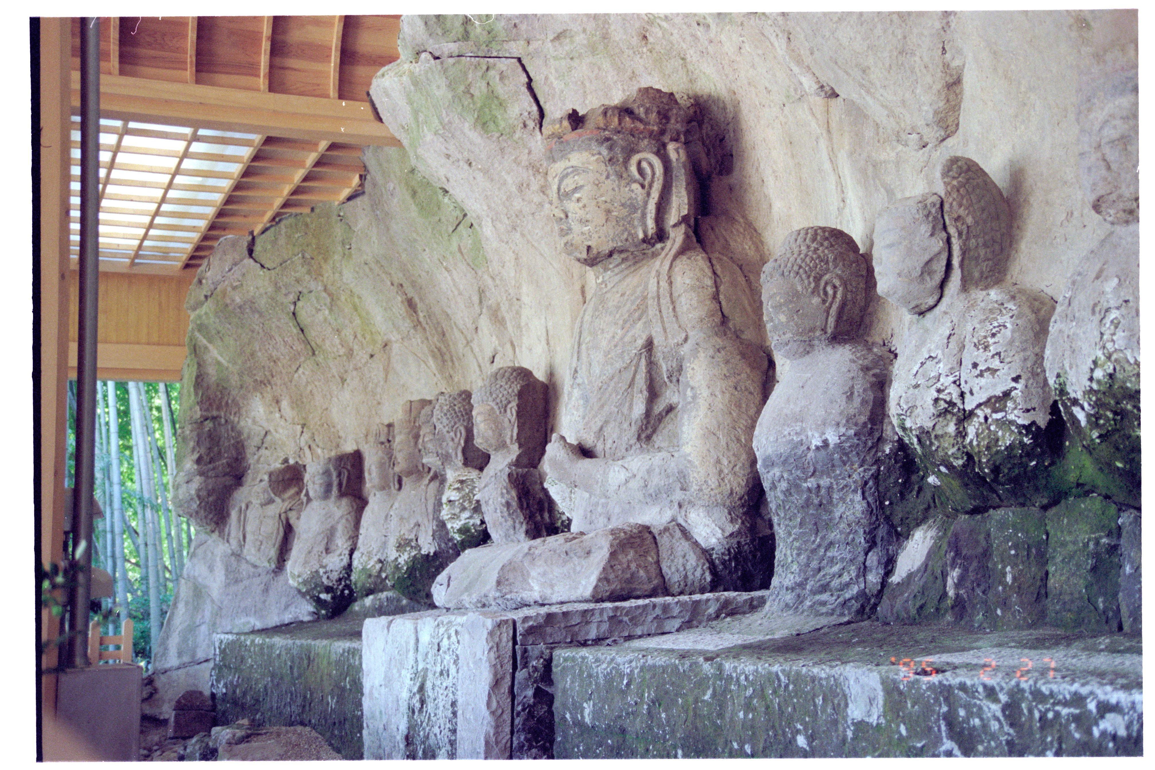 Usuki Stone Buddhas, Usuki, Oita, Japan.